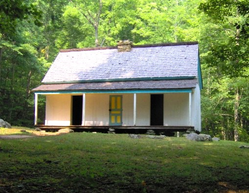 Alfred Reagan Cabin in the Roaring Fork Historic District, GSMNP, in East Tennessee.